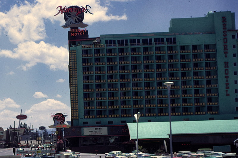 Harvey's Resort Hotel, photo taken in 1978 before an explosion demolished a large portion of the building. Scanned from a 35mm slide.